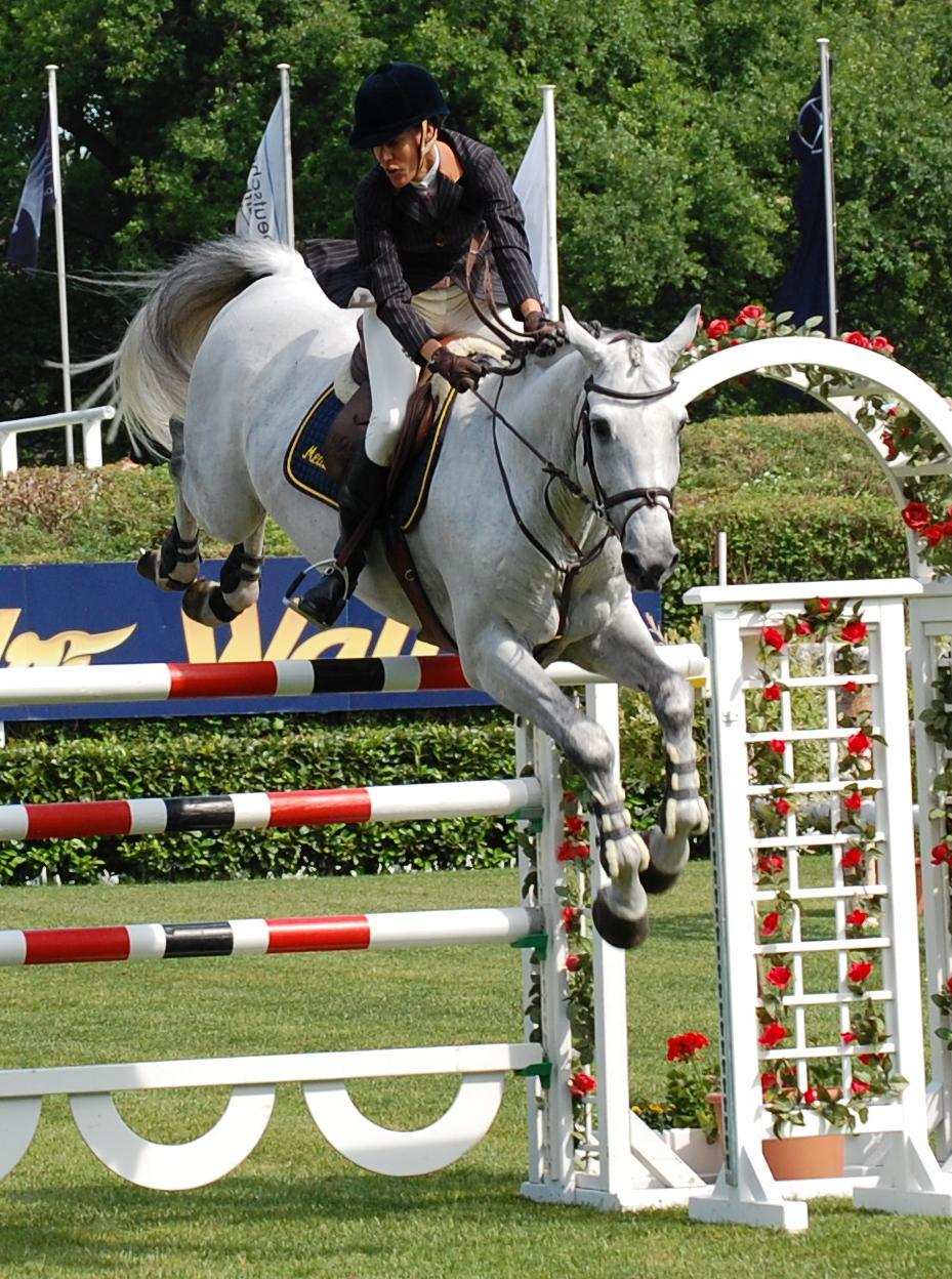 Portuguese rider Luciana Diniz with Winningmood, "Championat von Hamburg", CSI 5* Hamburg 2011